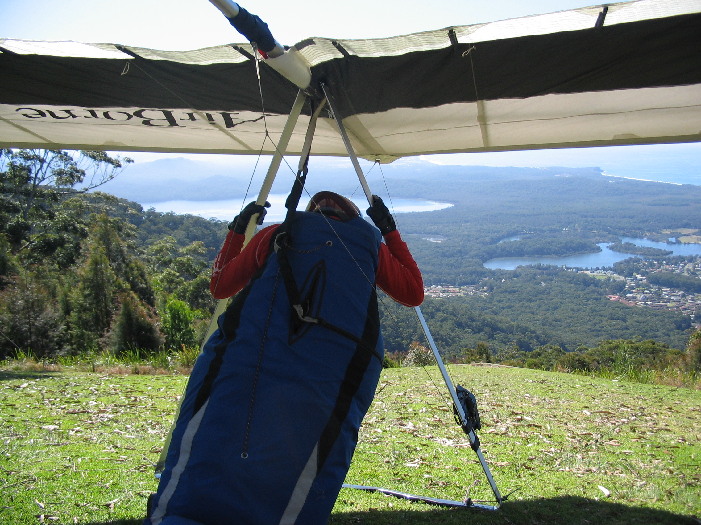 A Hang glider preparing for flight from North Brother Mountain, Dooragan National Park, New South Wales, Australia. Photo taken by Rohan Stelling, July 2005.